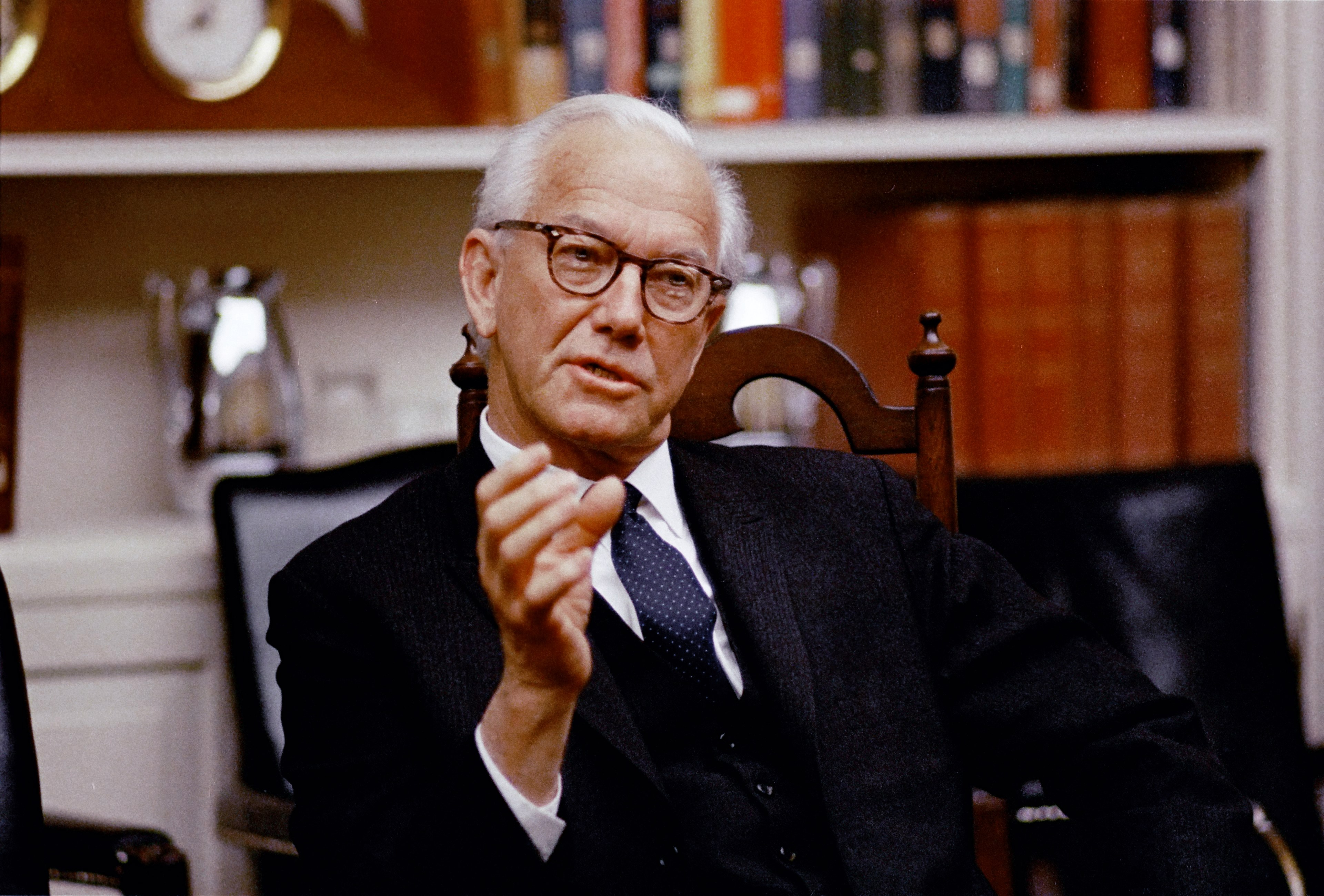 L. Mendel Rivers, Congressman (D-South Carolina, 1941-70)